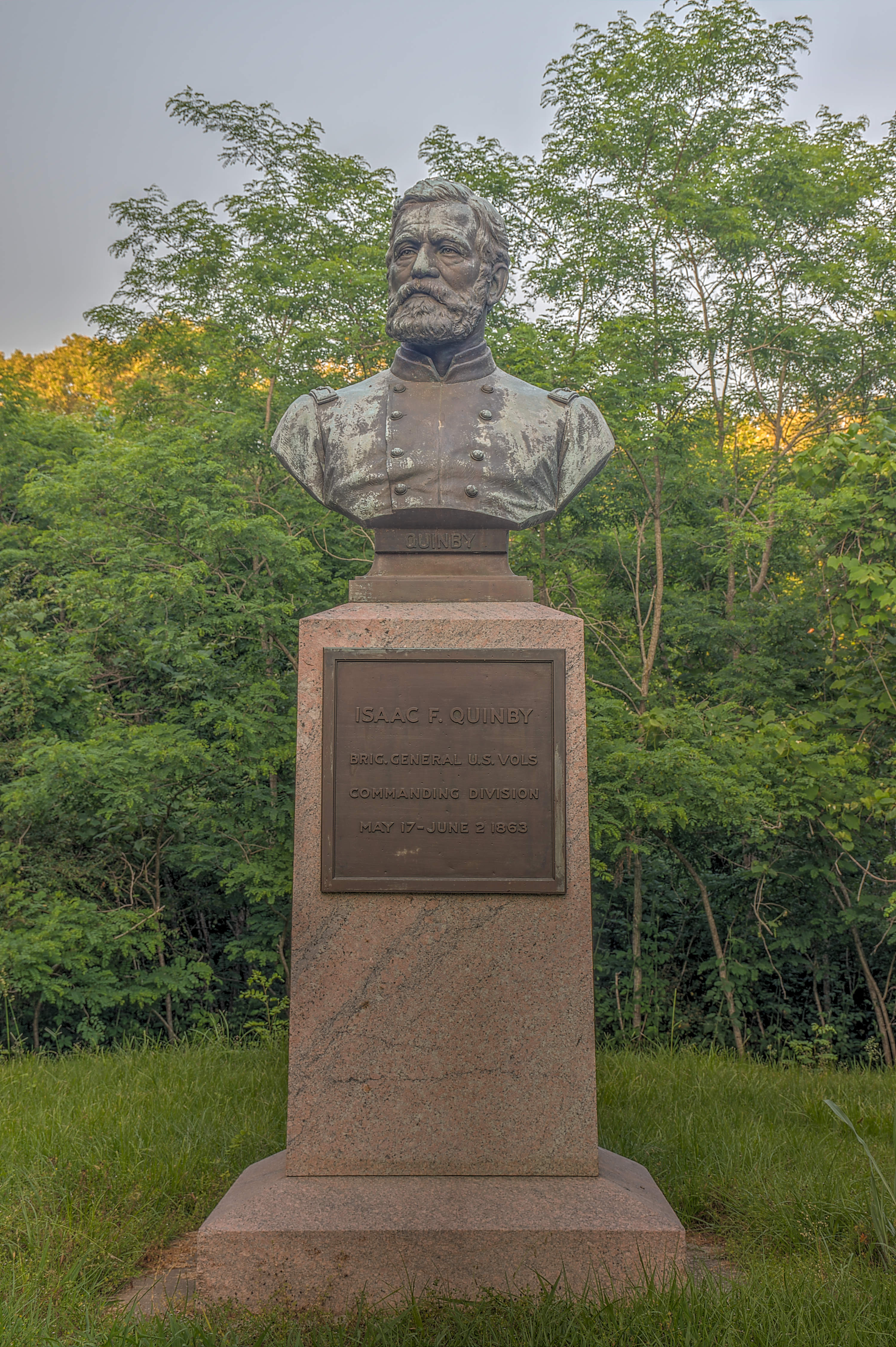 Brigadier General Isaac F. Quinby (1911); Sculptor: William Couper